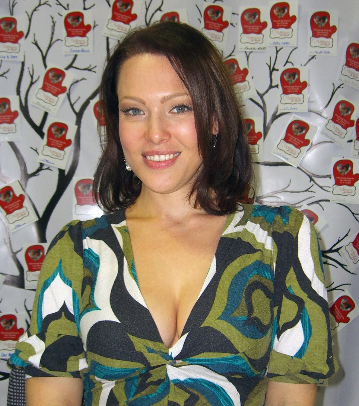 Actress Erin Cummings photographed against a poster for her charity, Mittens for Detroit, at the New York Comic Con, October 15, 2011. This photo was created by Luigi Novi. It is not in the public domain, and use of this file outside of the licensing terms is a copyright violation.